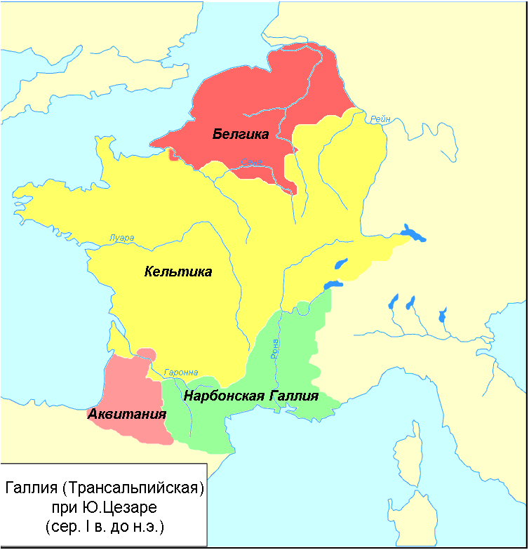 Gaul in 58 B.C. under Julius